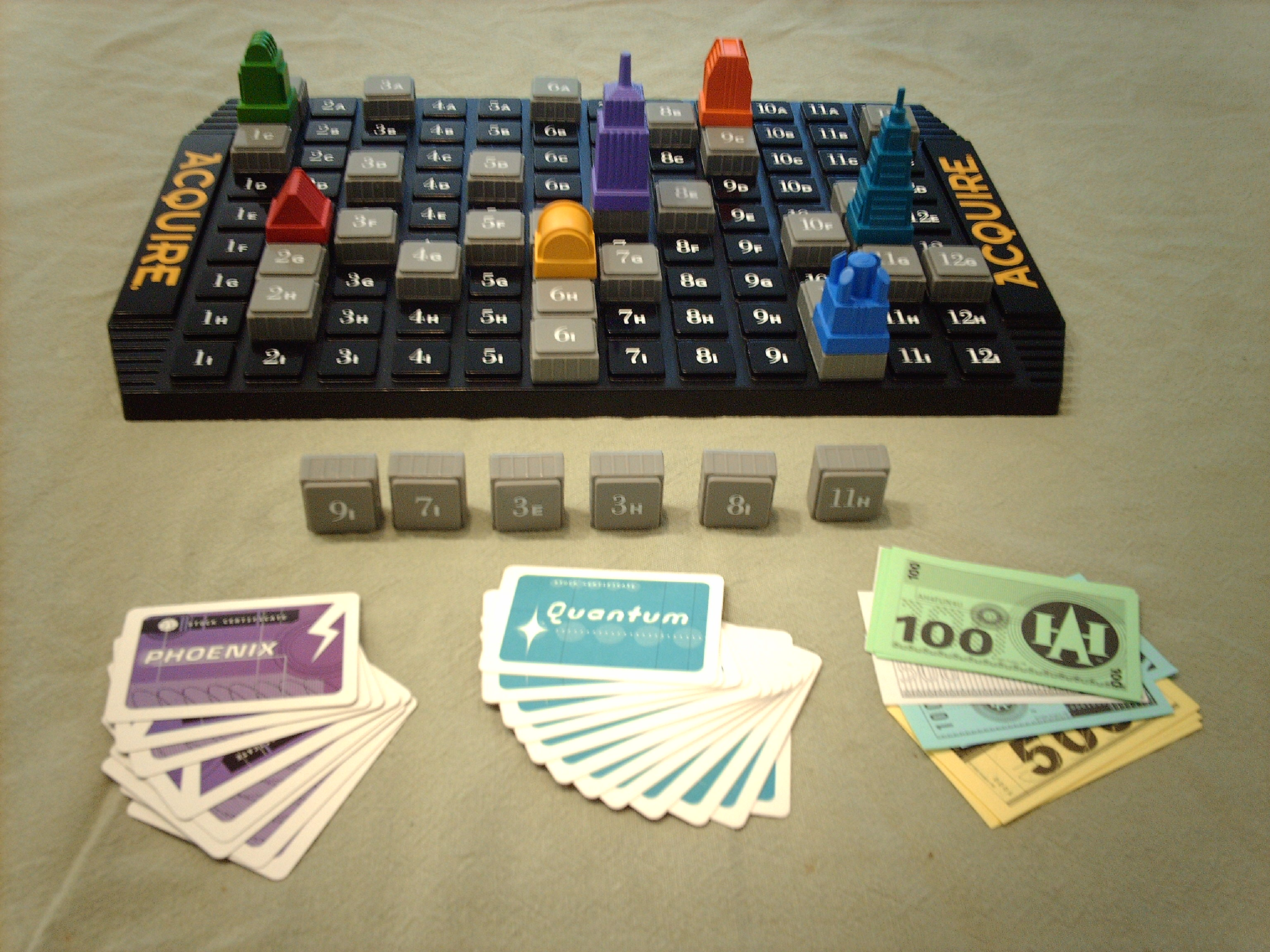 Photo of the board game Acquire in progress.